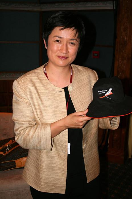 Penny Wong, Senator for South Australia, accepting Penrith City Council's "Sustainable Penrith" bucket hat at her UNFCCC address in Bali 2007.